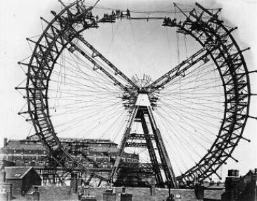 Big Wheel Blackpool during construction